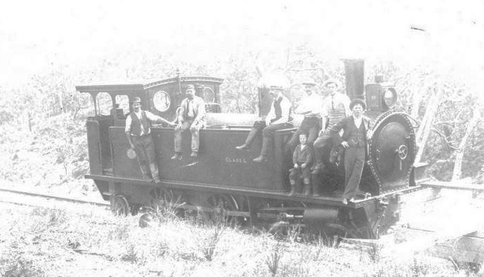 A three quarter view of WAGR K class (1891) steam locomotive no. 19, after it had been reclassified as L class, but before it was renumbered as no. 5.